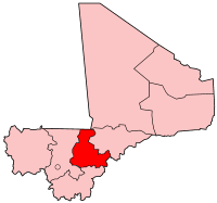 Map of Mali showing Segou region.